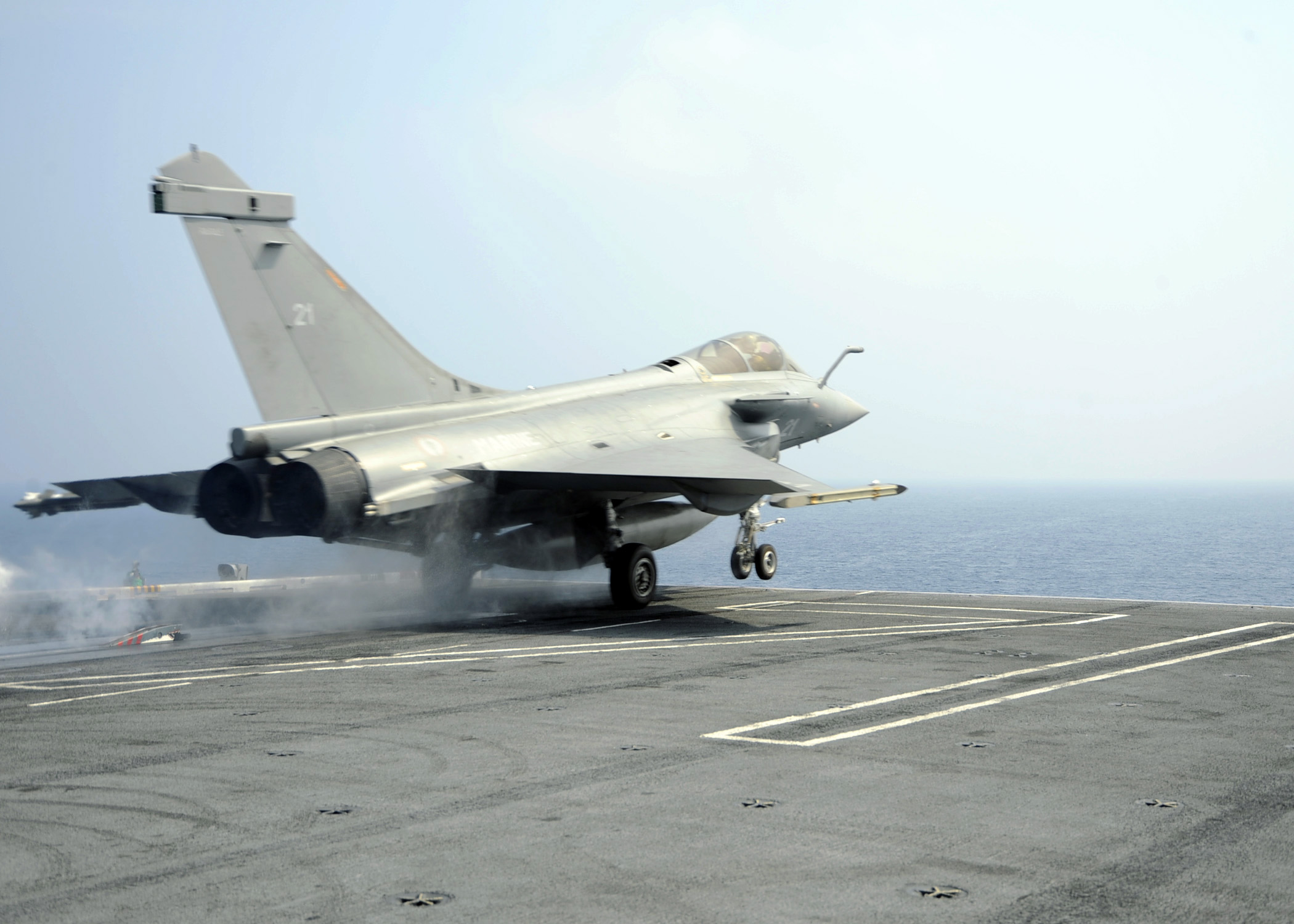 A French F-2 Rafale launches from the Nimitz-class aircraft carrier USS Theodore Roosevelt (CVN 71) during the first integrated U.S. and French carrier qualifications aboard a U.S. aircraft carrier. The Theodore Roosevelt Carrier Strike Group is participating in Joint Task Force Exercise "Operation Brimstone" off the Atlantic coast.